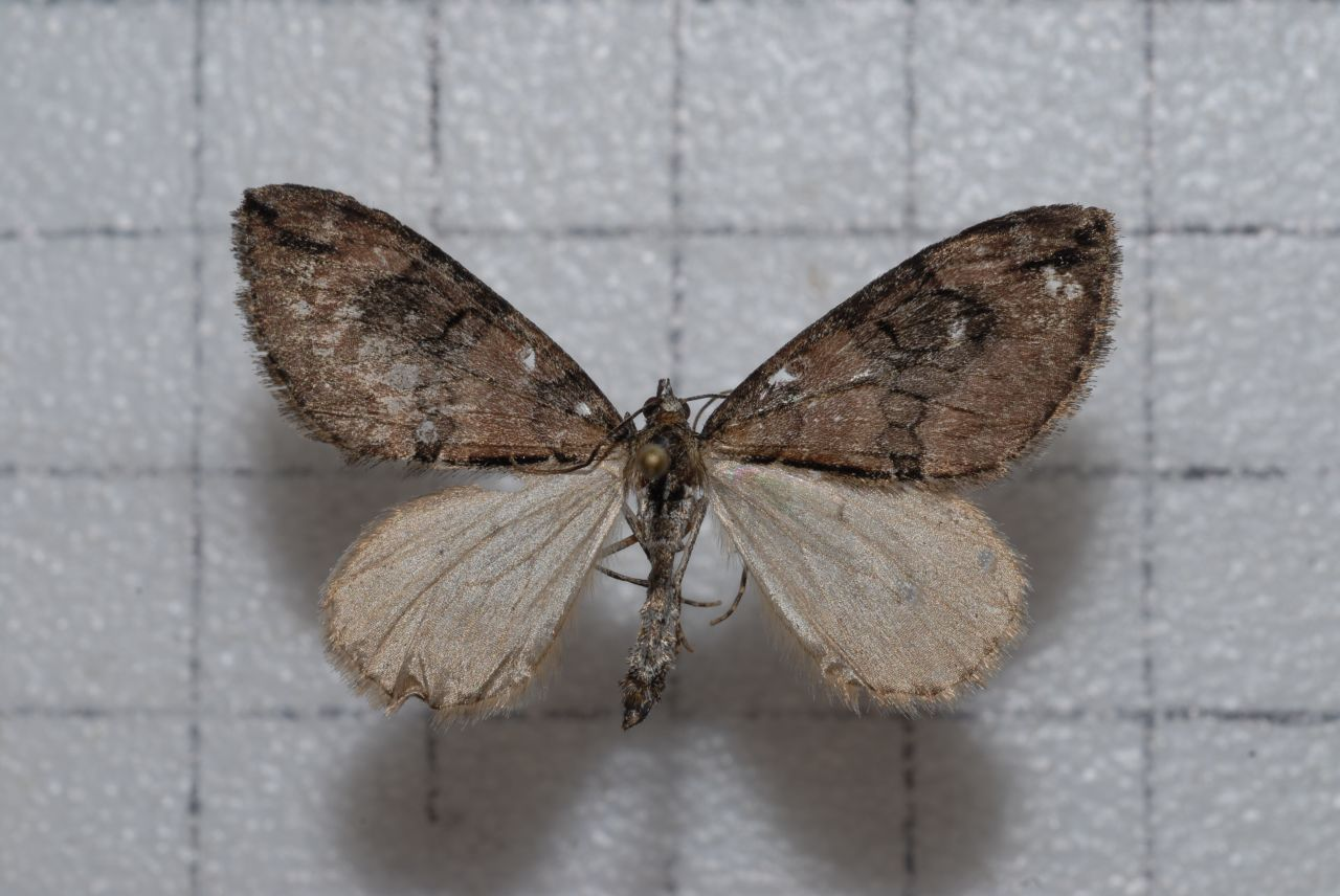 Heterothera sororcula (Bastelberger) 台灣奇帶尺蛾 鞍1:P.60,Pl.14-20